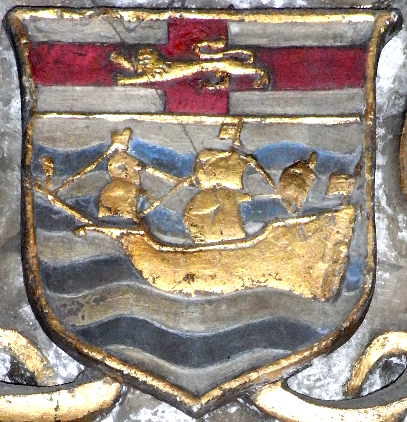 Arms of the Spanish Company, detail from mural monument to Richard beaple (d.1643), thrice Mayor of Barnstaple, St Peter's Church, Barnstaple, Devon. The arms are blazoned as follows: [1] Azure in base a sea, with a dolphin's head appearing in the water all proper, on the sea a ship of three masts, in full sail, all or, the sail and rigging argent, on each a cross gules, in the dexter chief point the sun in splendour, in the sinister chief point an estoile of the third ; on a chief of the fourth, a cross of the fifth, charged with the lion of England. The crest was: On a wreath of the colours, two arms embowed issuing out of clouds all proper, holding in the hands a globe or The supporters were: Two seahorses argent, finned or.